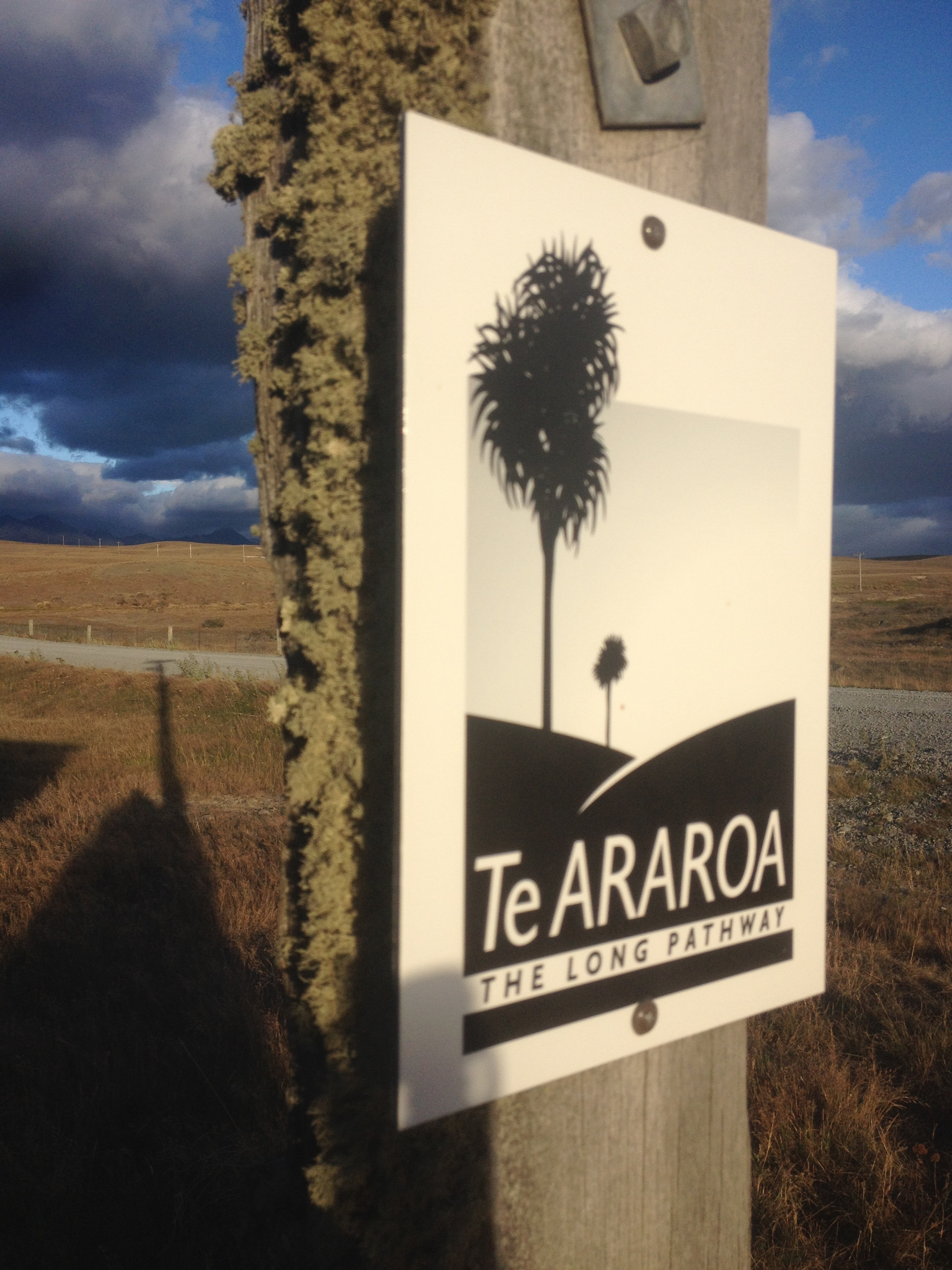 TA sign outside of Telegraph hut